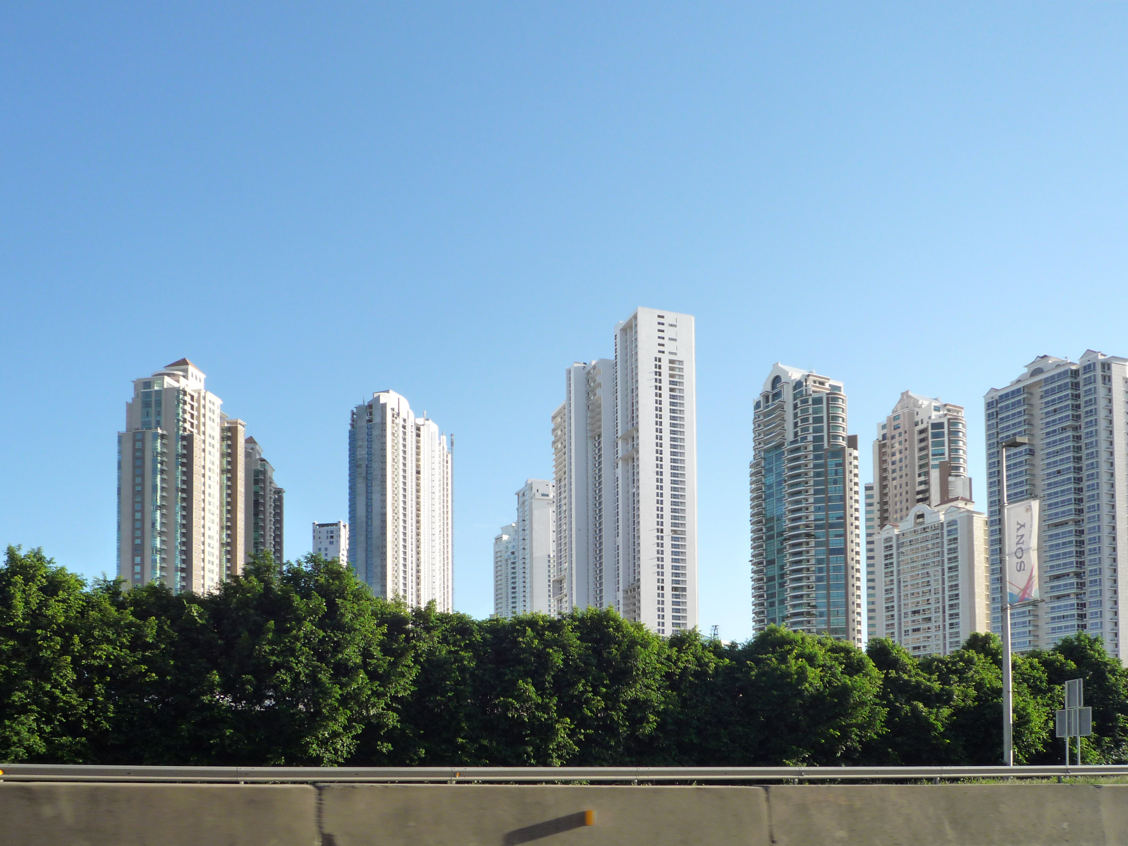 panama skyscrapers